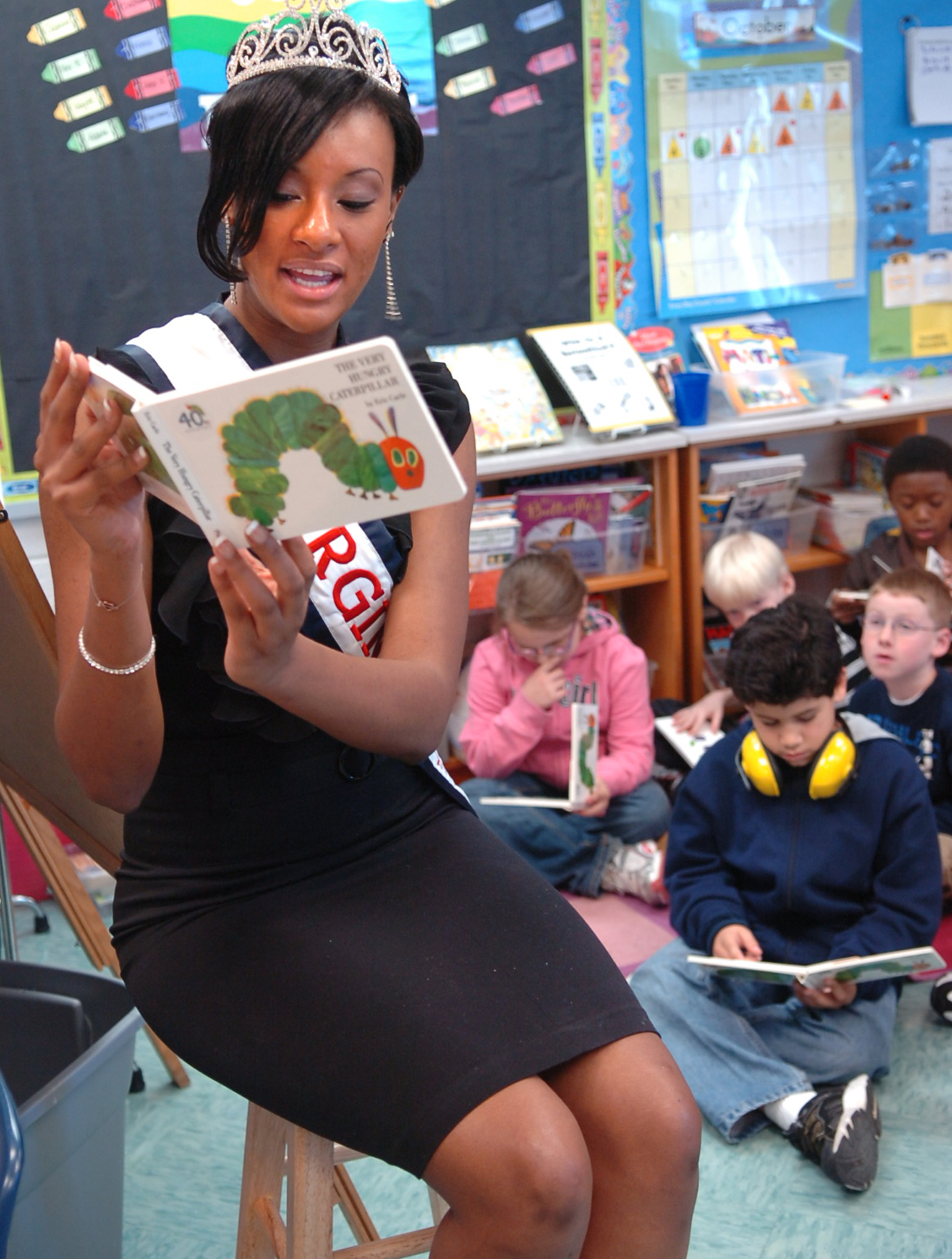 Christie Black, Miss Virginia United States reads the book, "The Very Hungry Caterpillar" to third-grade classes Friday at Fort Belvoir Elementary.